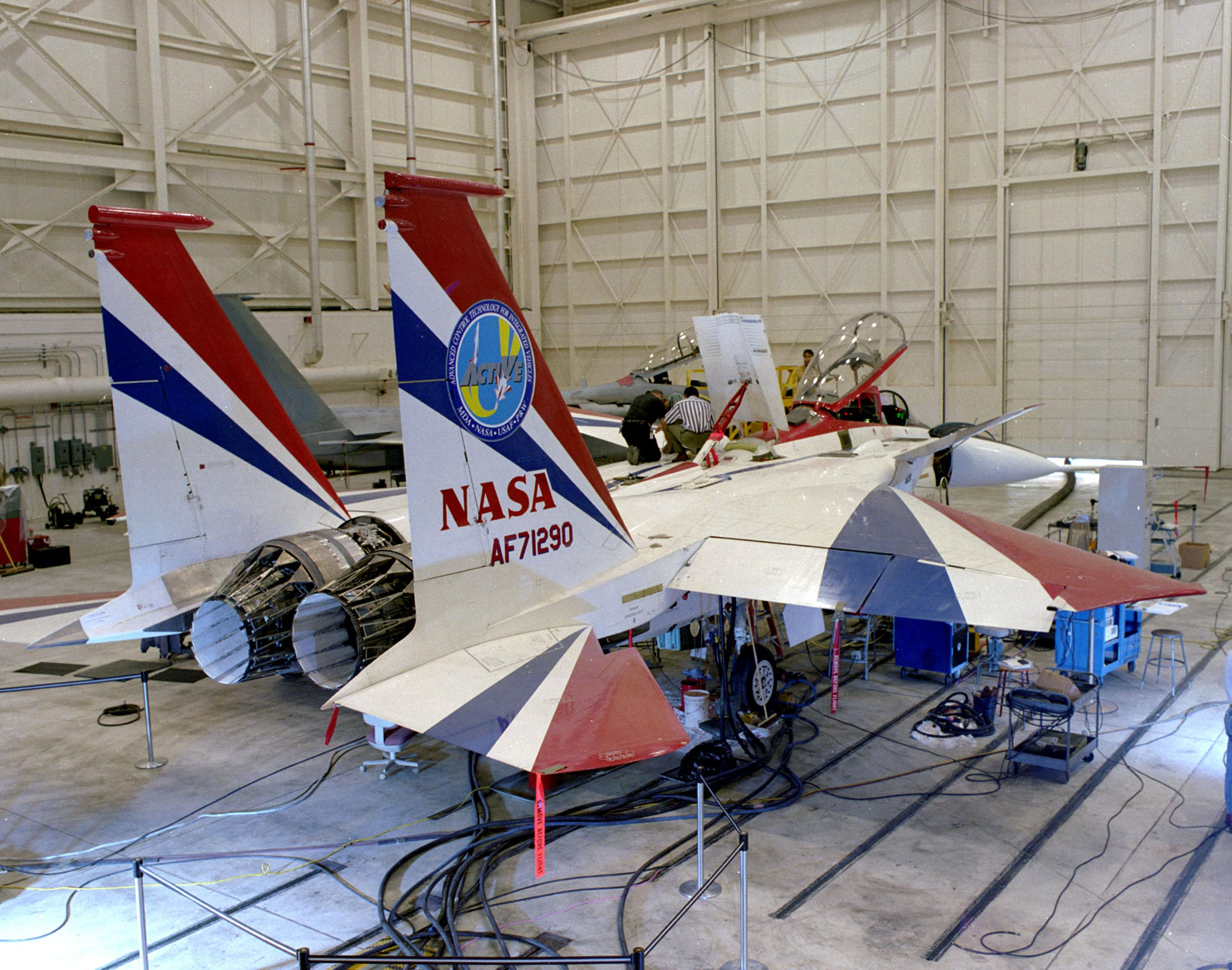 F-15B used by NASA for programe ACTIVE, Advanced Controls Technology for Integrated Aircraft. F-15 ACTIVE on a test stand showing its 3D Pitch Yaw Balance Beam Nozzles (P/YBBN). These nozzles are mounted on the stock F100-299 engines and provide 20 degrees of thrust vectoring in any direction.